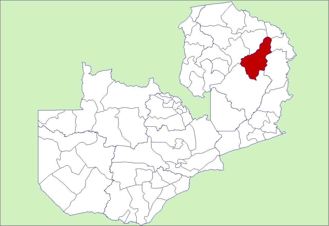 District locator in Zambia